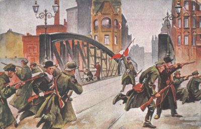 Greater Poland Uprising 1918/1919, Leon Prauziński's painting